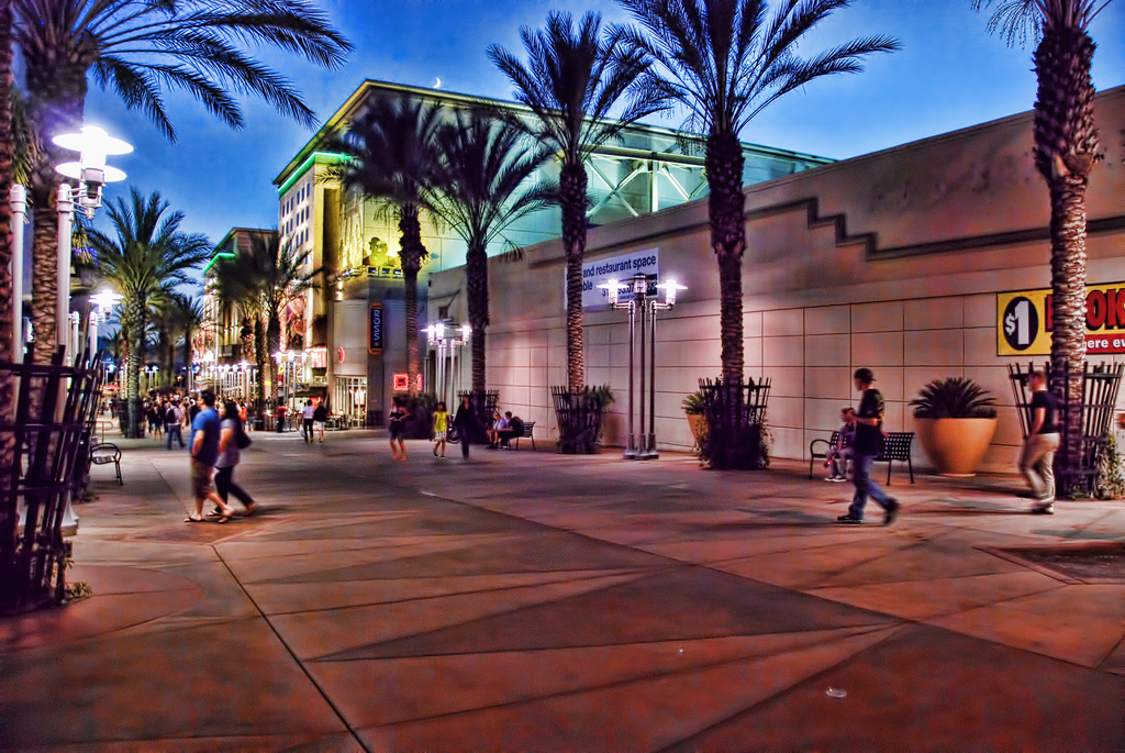 Burbank Town Center in Burbank, California